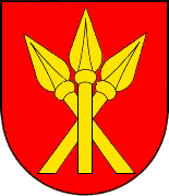 Coat of arms of Vráble, Slovakia